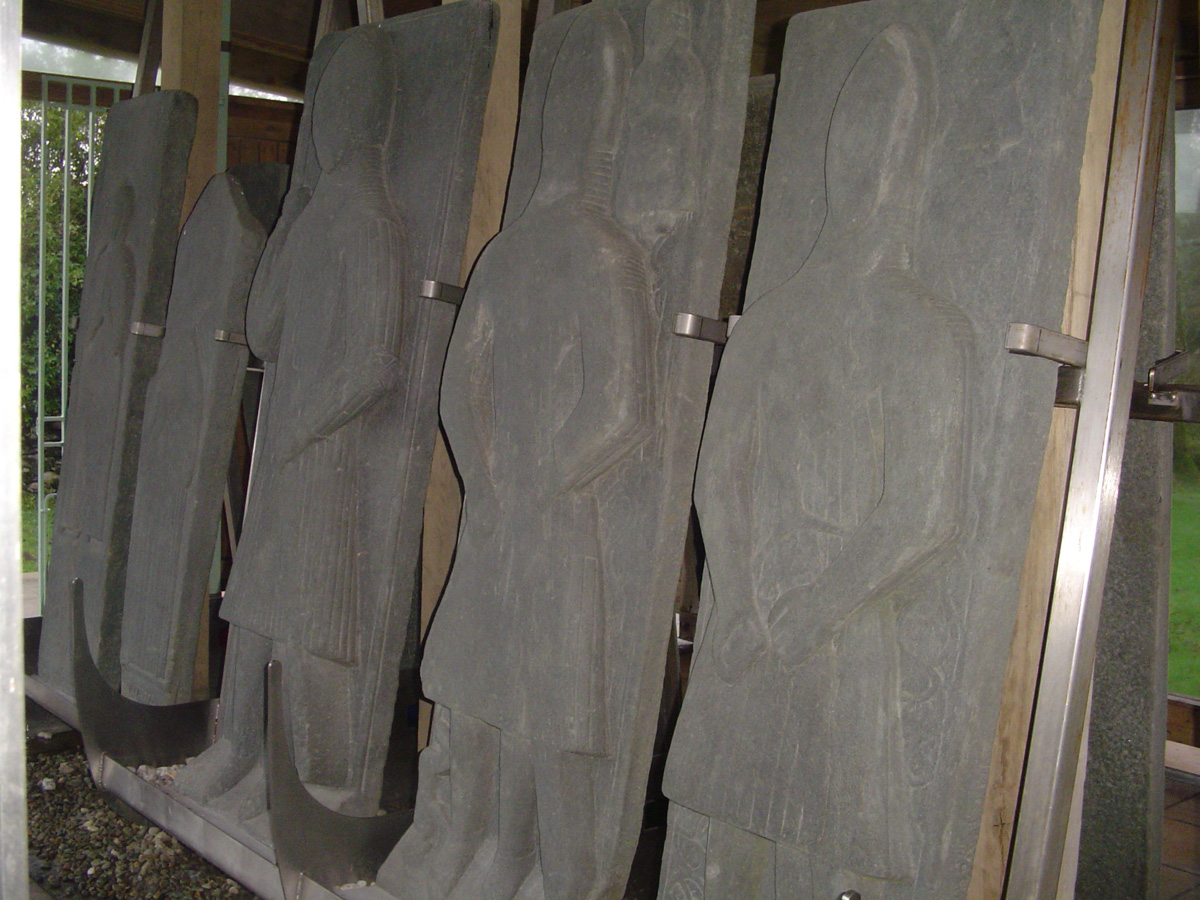 took this photo myself in 2004